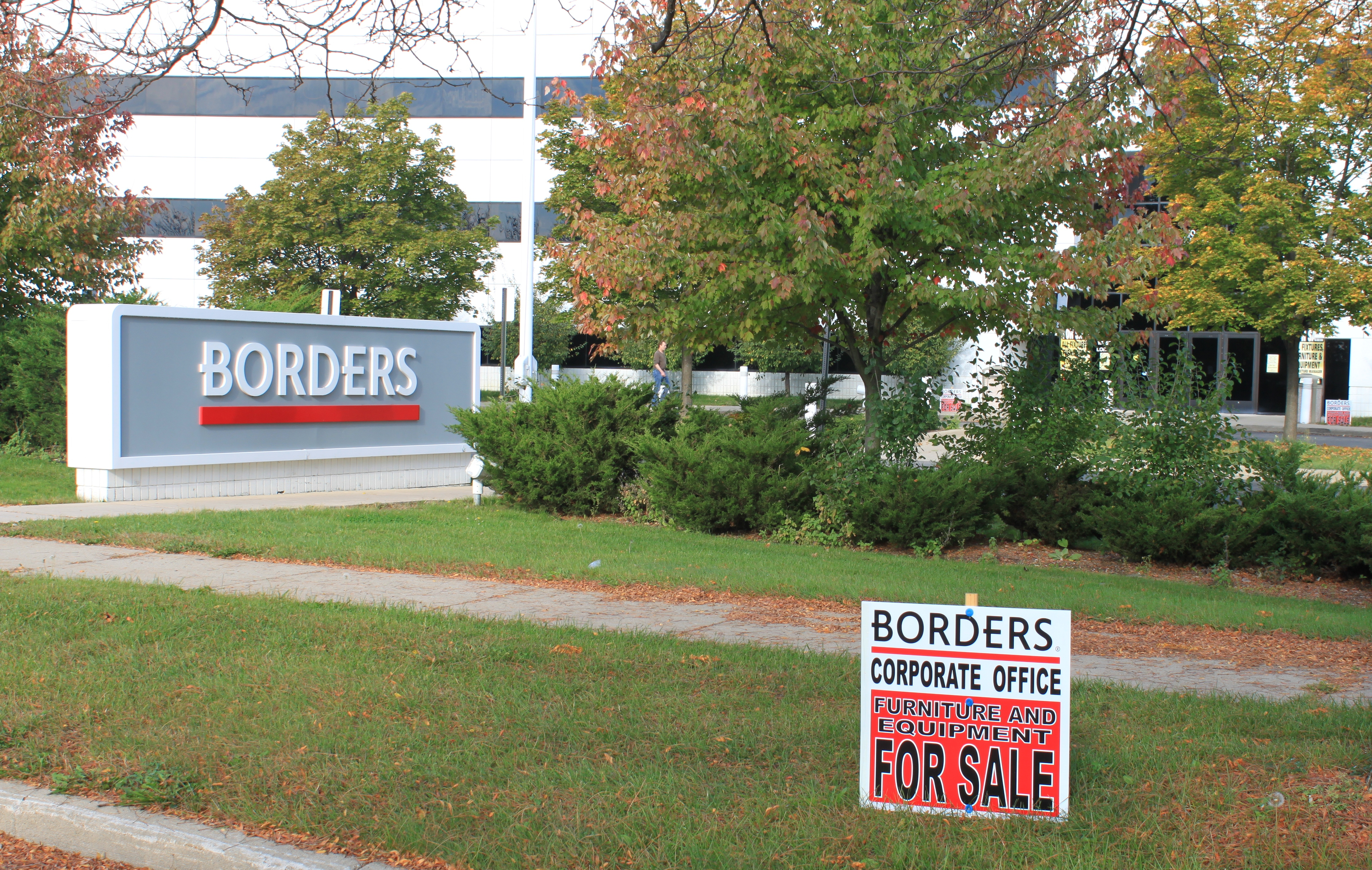 Office equipment 'for sale' signs at corporate offices building of bankrupt Borders Group, 100 Phoenix Drive, Ann Arbor, Michigan.